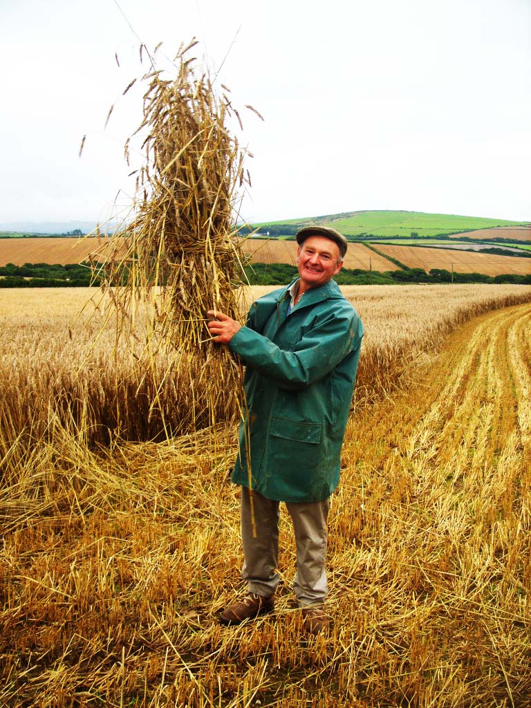 Crying the neck ceremony, Cornwall